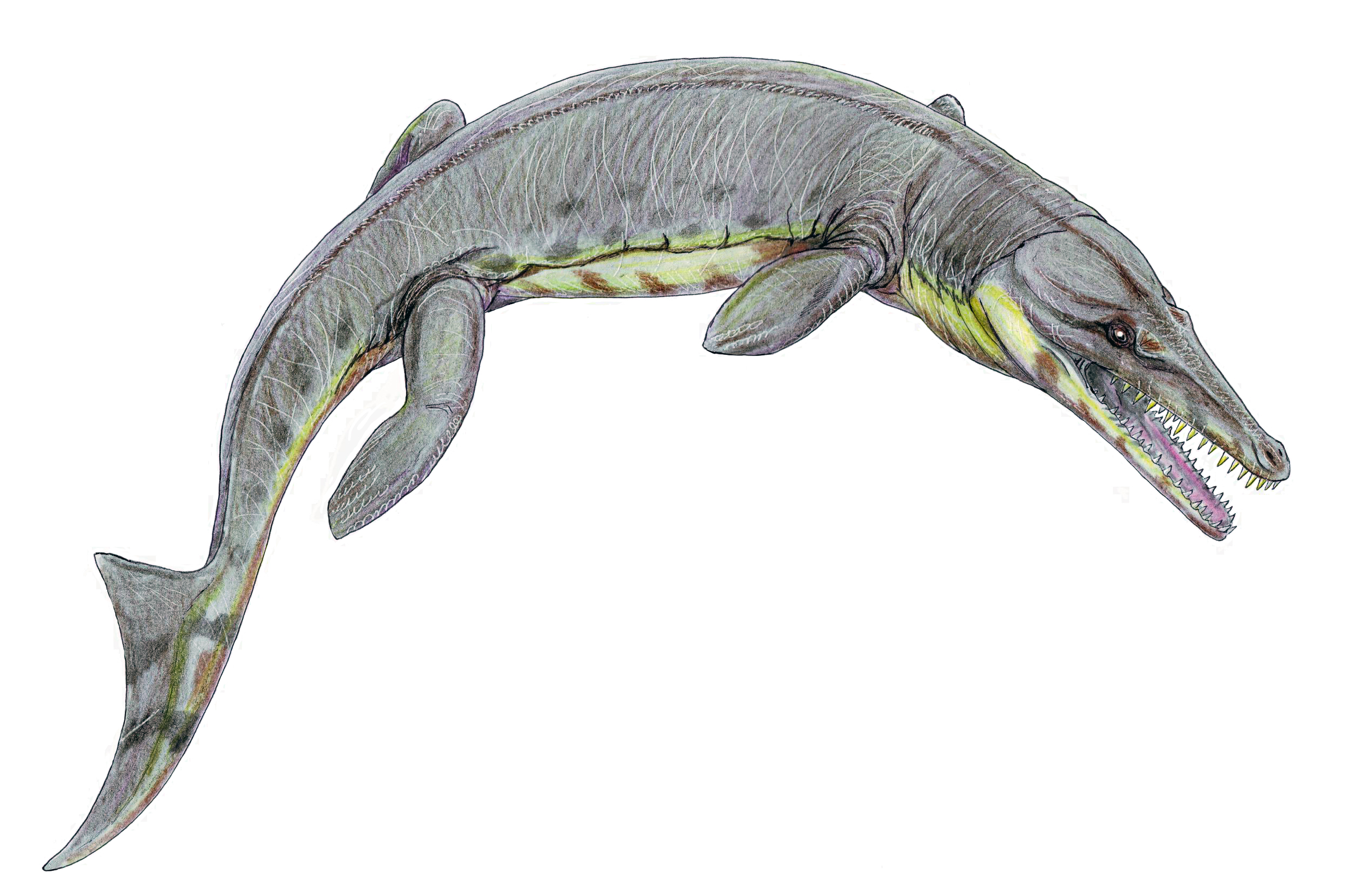 Suchodus durobrivense - Late Jurassic of Europa